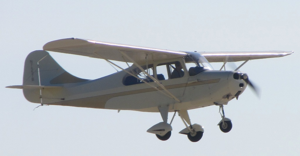 Aeronca 7FC